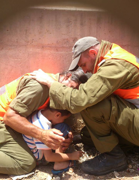 IDF officers shield a 4-year-old boy, protecting him with their own bodies during a Hamas rocket attack 15/7/14 (Photo credit: Li Aviv Dadon) For more updates: The Israel Defense Forces Facebook The Israel Defense Forces blog Follow us on Twitter